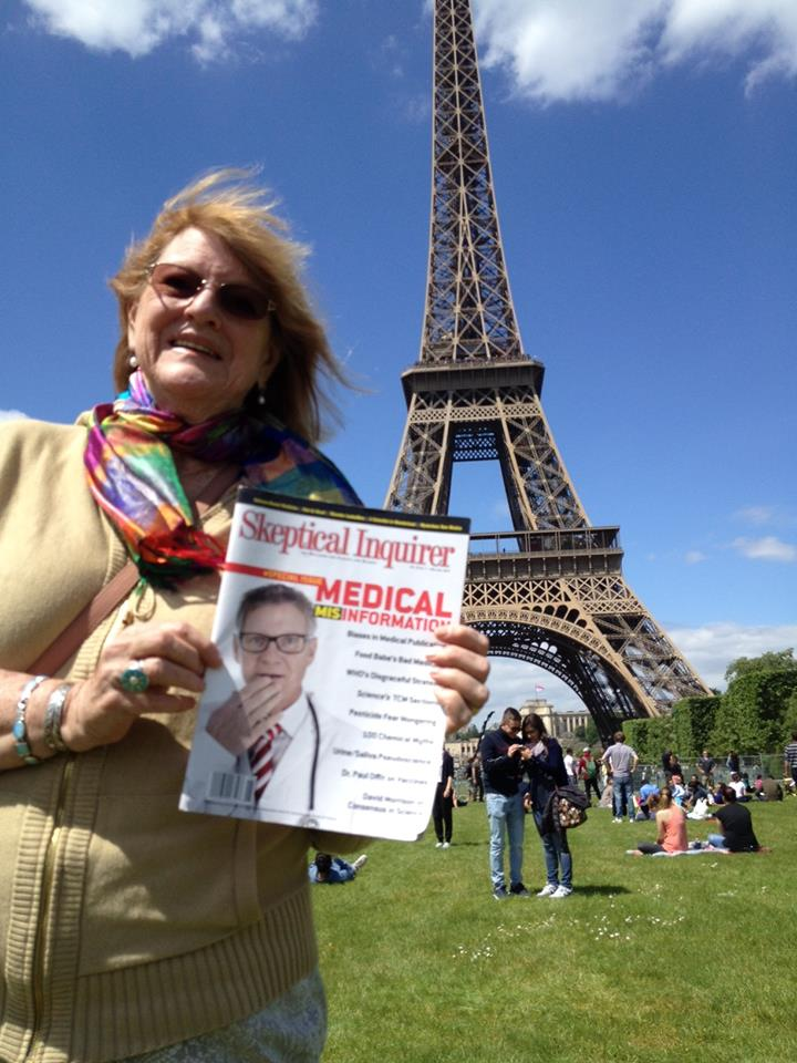 A photo of a reader at the Eifffel Tower with SI